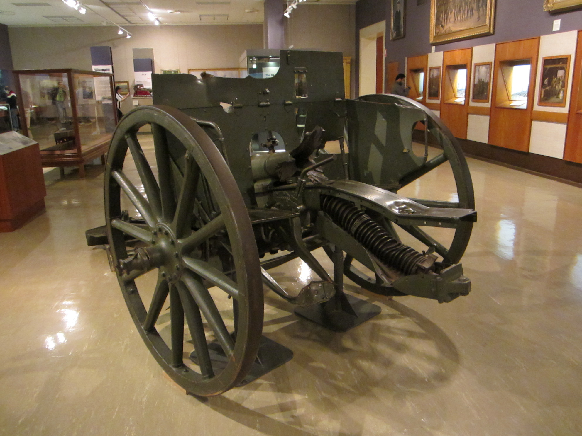 A German 7.7 cm FK 96 n.A. field gun on display in the Australian War Memorial's main Western Front gallery in August 2012. This gun was captured by troops led by Major Blair Wark during the attack on the Hindenburg Line on 29 September 1918. Wark was awarded a Victoria Cross for his role in this offensive.